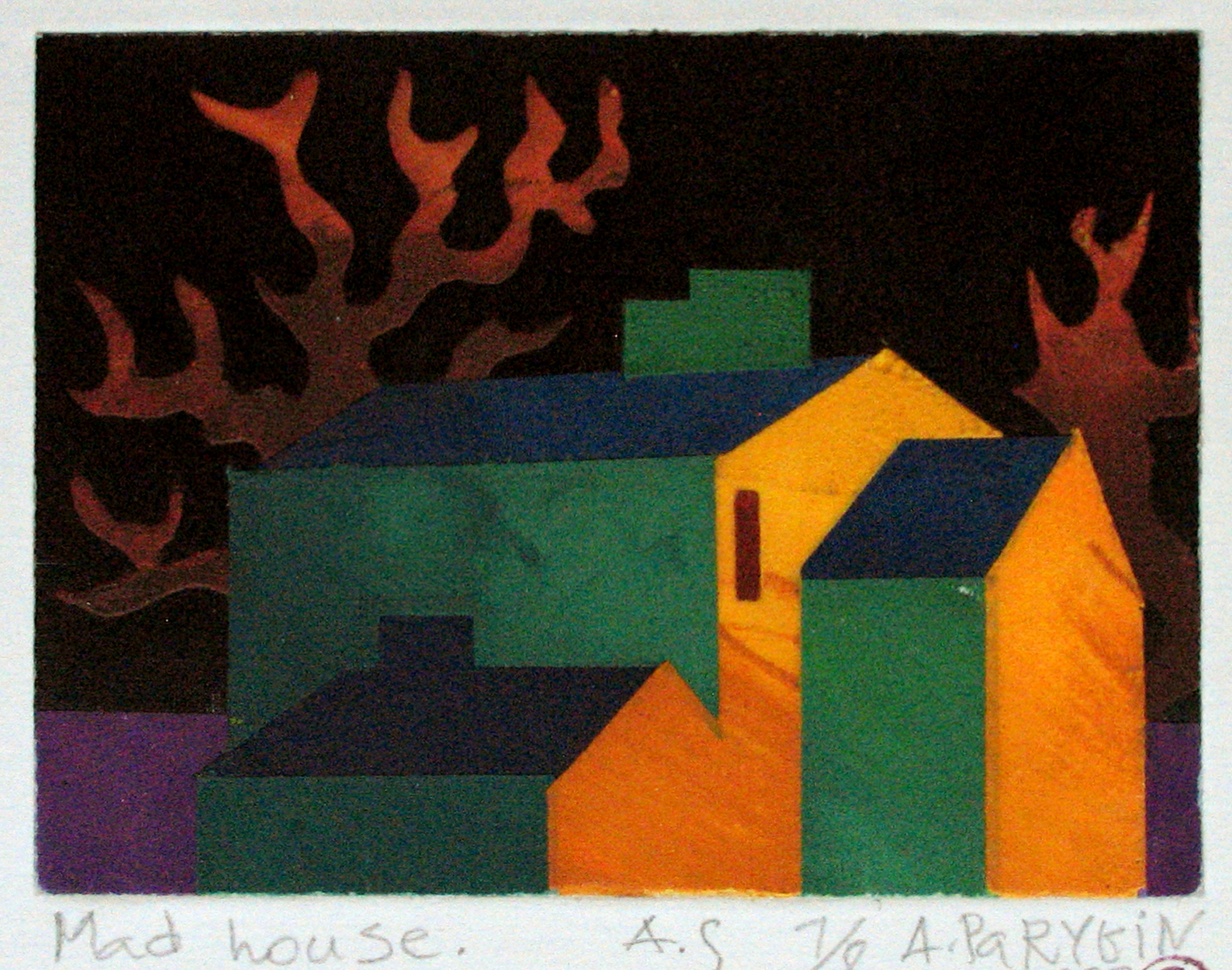 prints, contemporary art, contemporary prints, serigraphy